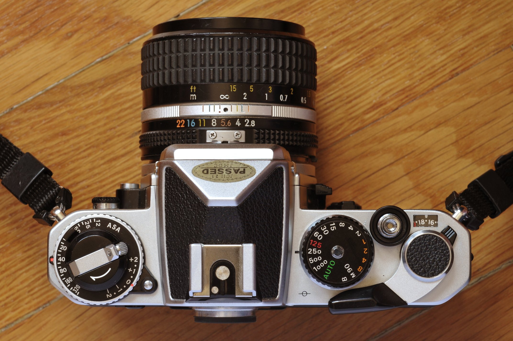 Annotated Nikon FE top plate with, from left to right: ASA/ISO film-speed dial coaxial with the film rewind knob and the exposure compensation dial, prism with hot shoe, shutter speed dial, shutter release button, film advance lever coaxial with the multiple exposure lever.